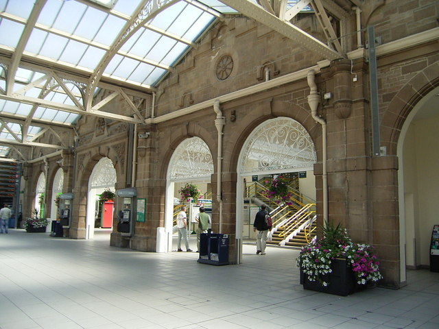 Railway Station This is the original outer wall of the station built in 1870.